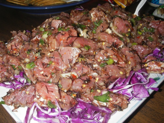 I photographed this limu poke at a friend's retirement party in Puunene, Maui, Hawaii in December 2005. This particular batch seems to contain fresh ahi (yellowfin tuna), inamona (chopped kukui nuts), green onions, and long ogo (a kind of limu or seaweed that branches like small blood vessels and tastes like the ocean). It is presented on a bed of red cabbage.